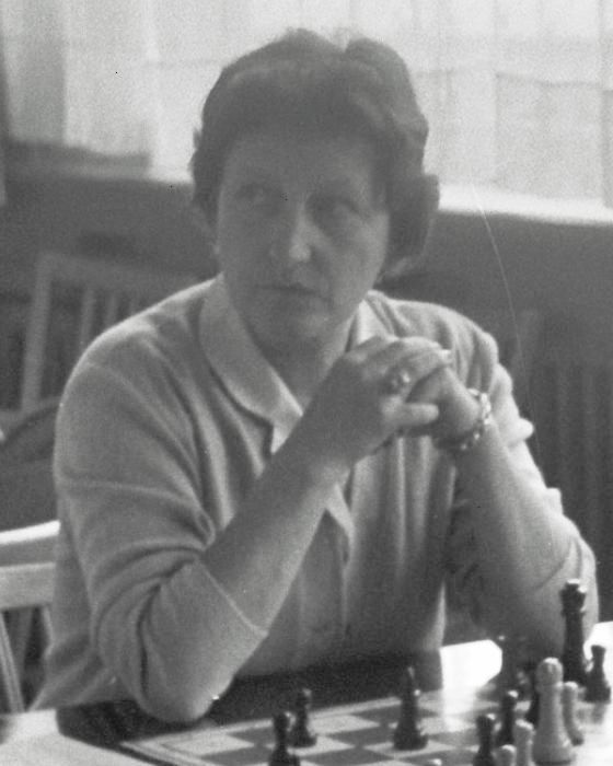 Friedl Rinder, German Championship (women) 1959 at Dahn, Photographer Gerhard Hund.